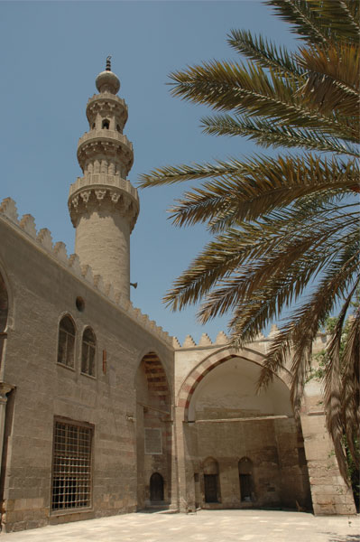 Aqsunqur Mosque, or Blue Mosque. Egypt